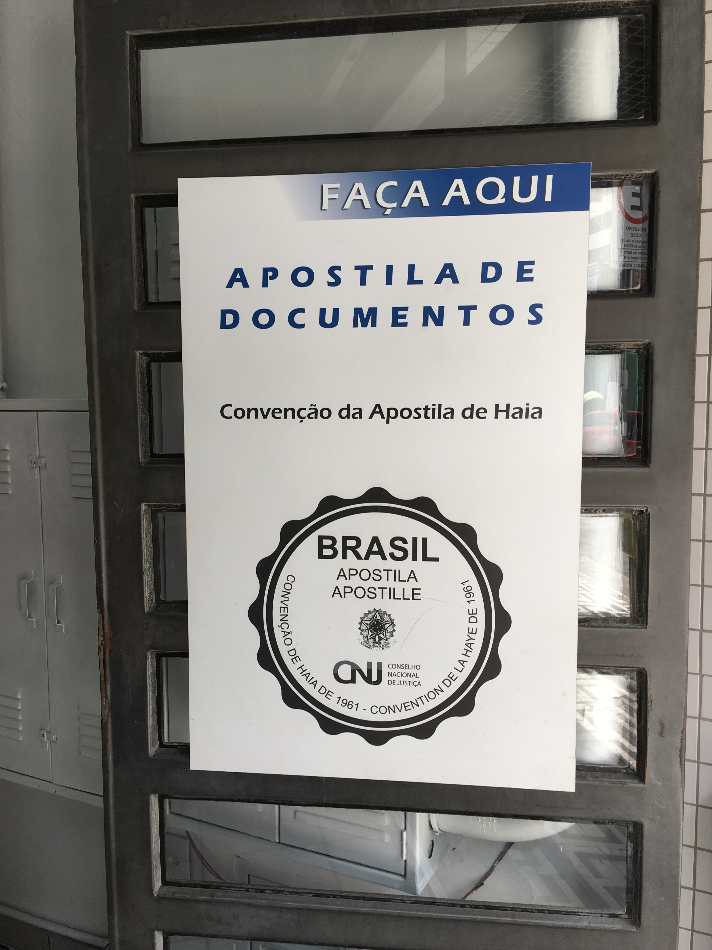 Sing informing that apostilles of the Hague Convention are issued by that office.